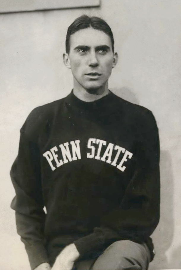 1926 Press Photo Penn State Olympic runner Bill Cox - net04021